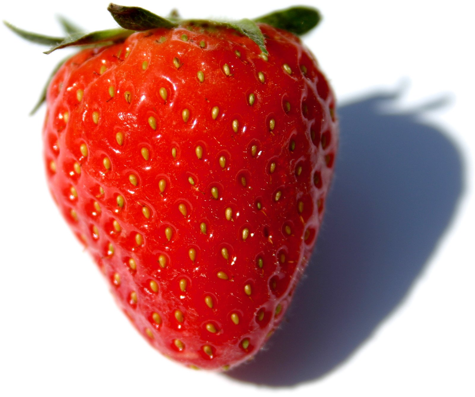 A strawberry